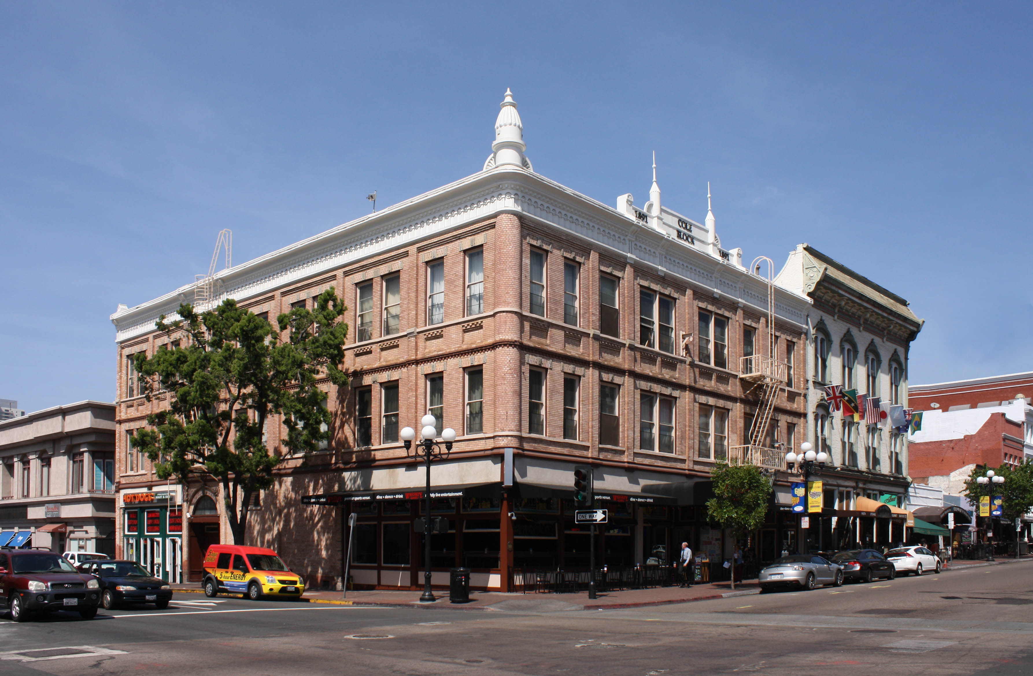 The Cole Block (1891) in the Gaslamp Quarter, San Diego, California